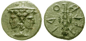 Etruria, Volaterrae (nowadays Volterra. Circa 230-220 BC. Æ Aes Grave Dupondius (257 gm). Janiform head wearing pointed petasos FELA-ODI (Etruscan Velathri) retrograde around club flanked by I-I. Thurlow-Vecchi 85; HN Italy 109a; Haeberlin pl. 83, 1. Good VF, green patina. Very rare and exceptional. ($2000) Although there was a hoard of aes grave from Volaterrae dispersed by Münzen und Medaillen in the early 1970s, apparently there were not many examples of this type as the number of extant specimens in 1979 (when Thurlow and Vecchi published their work) was only nine.